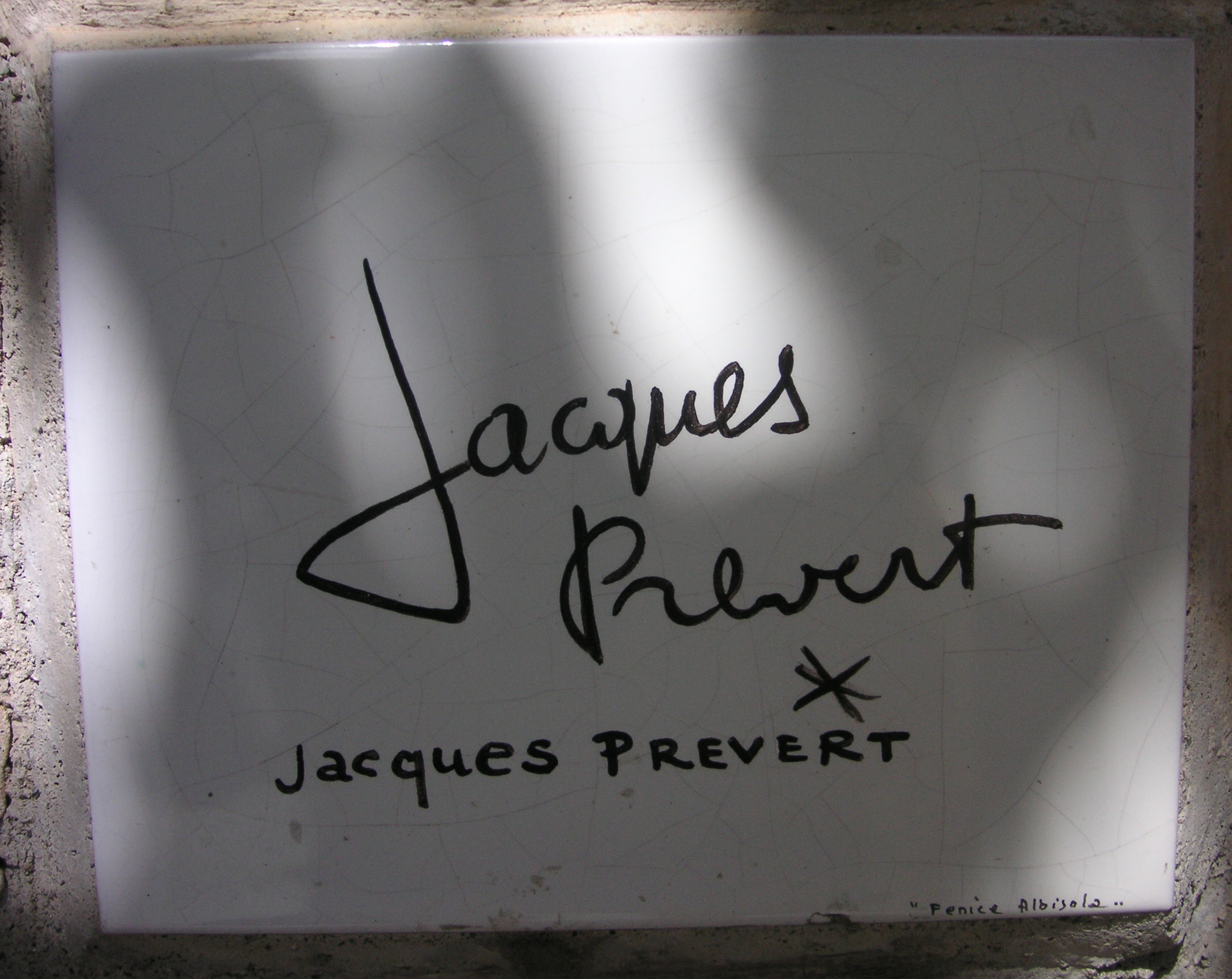 Jacques Prévert autograph on the muretto of Alassio